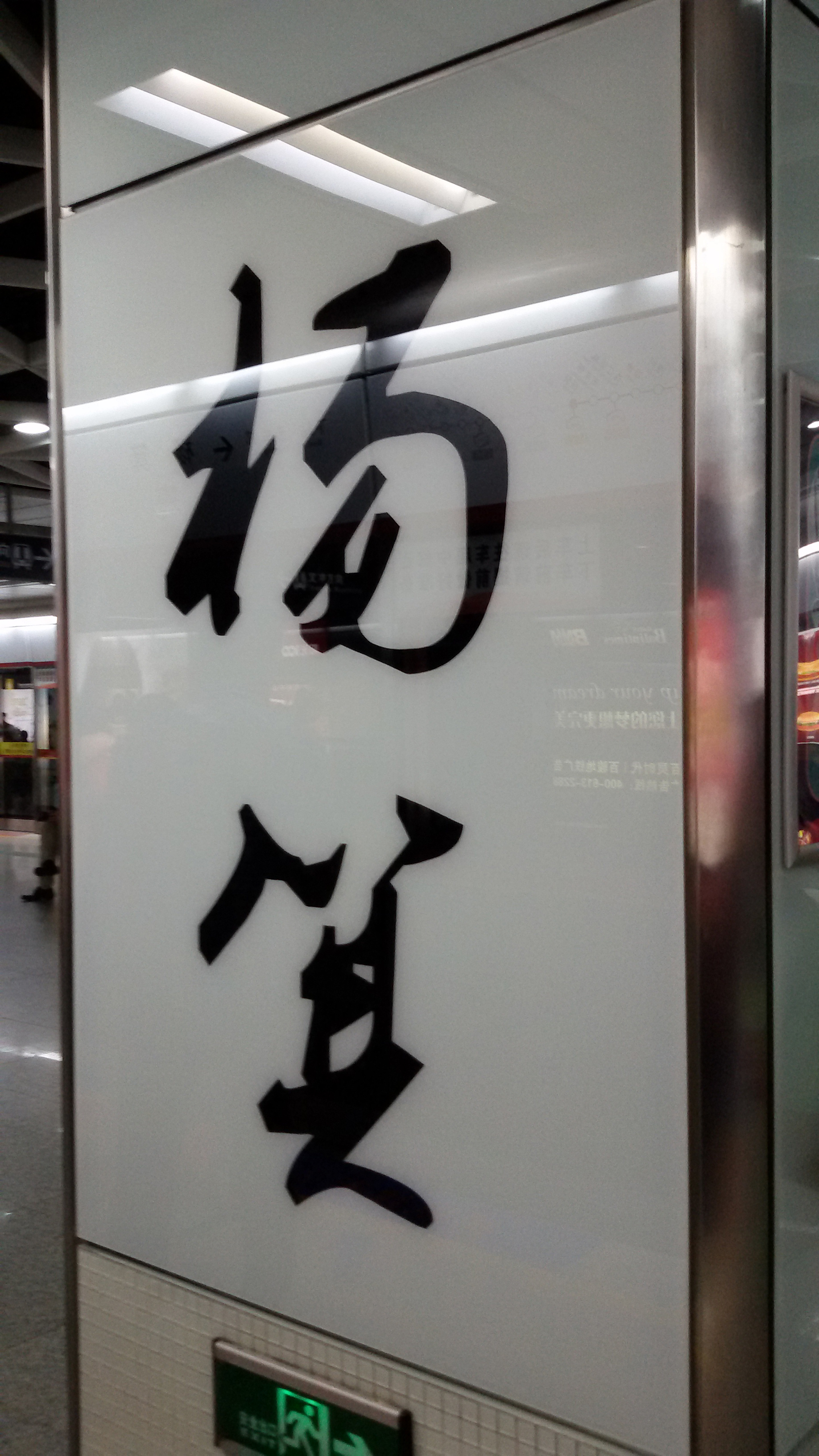 WORD on Pillar for Yangji Station in Line 5, Guangzhou Metro 粵語: 楊箕站嘅柱上面啲字（廣州地鐵5號綫）